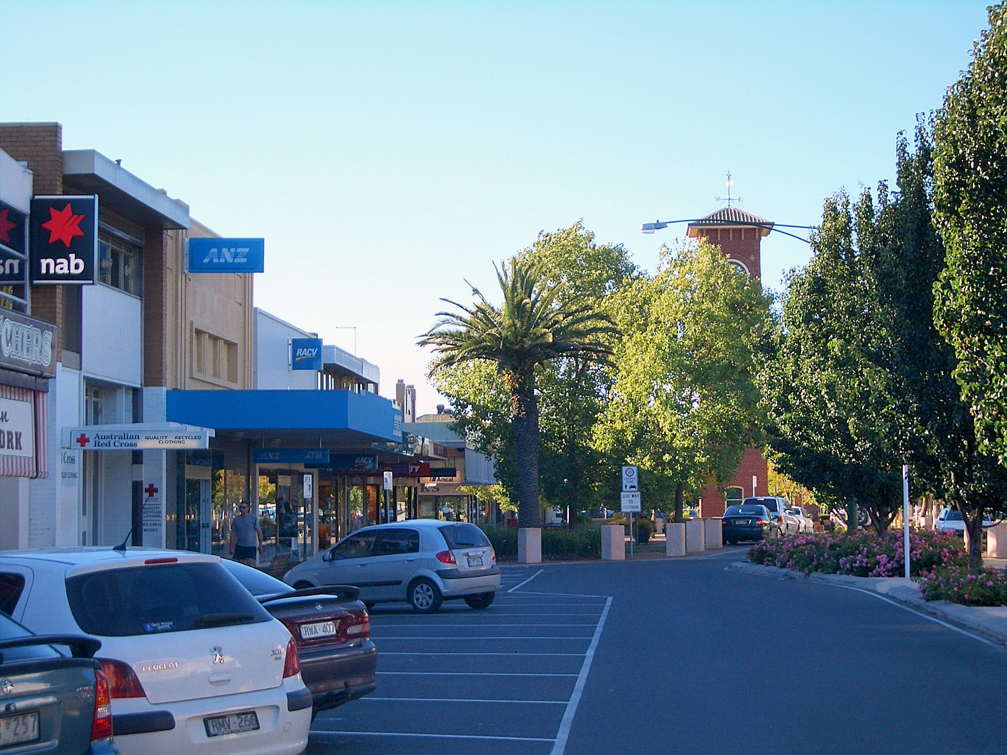 In the central section of Sale, Victoria